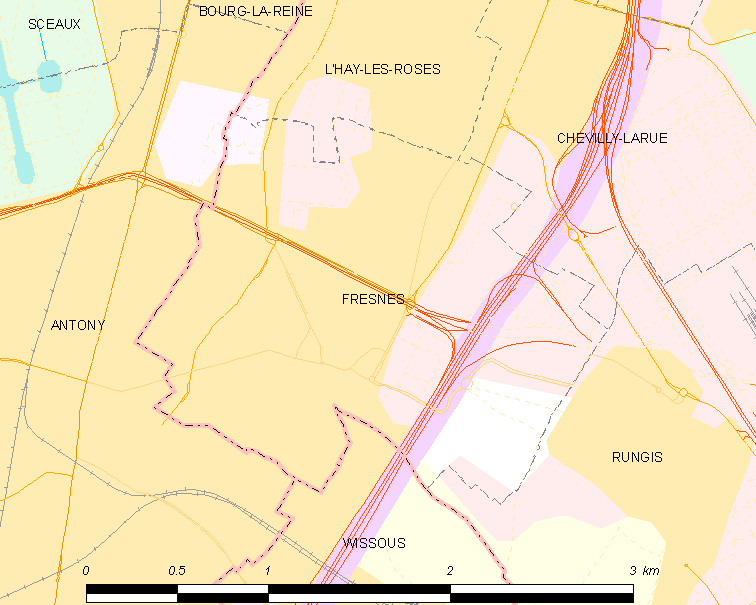 Map of French municipality Fresnes